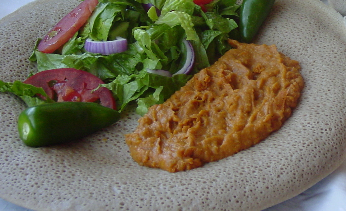 Taita served with shiro and salad.